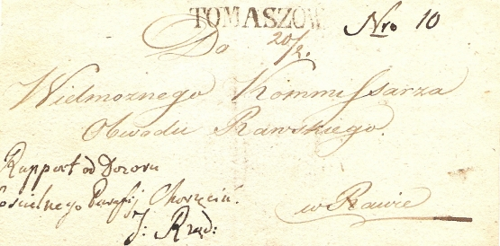 1830, a letter sent from the parish in Chorzęcin from Poczta Tomaszów to Rawa